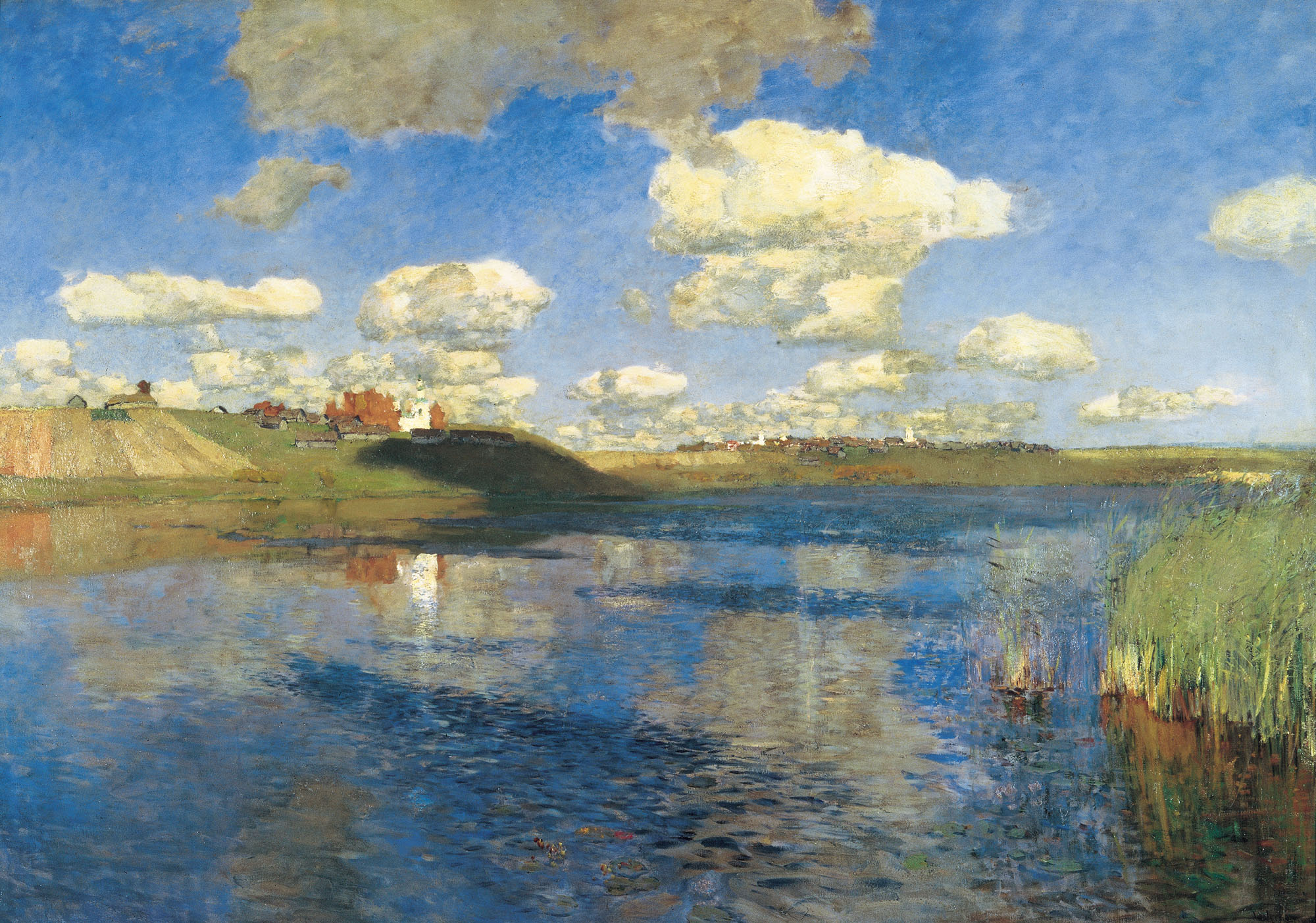 The Lake. Rus'